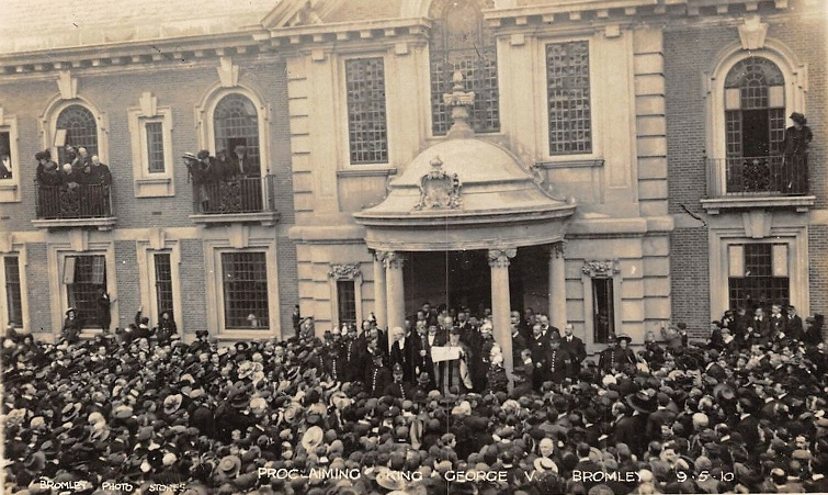 Old postcard "Proclamation of George V at Bromley Town Hall"